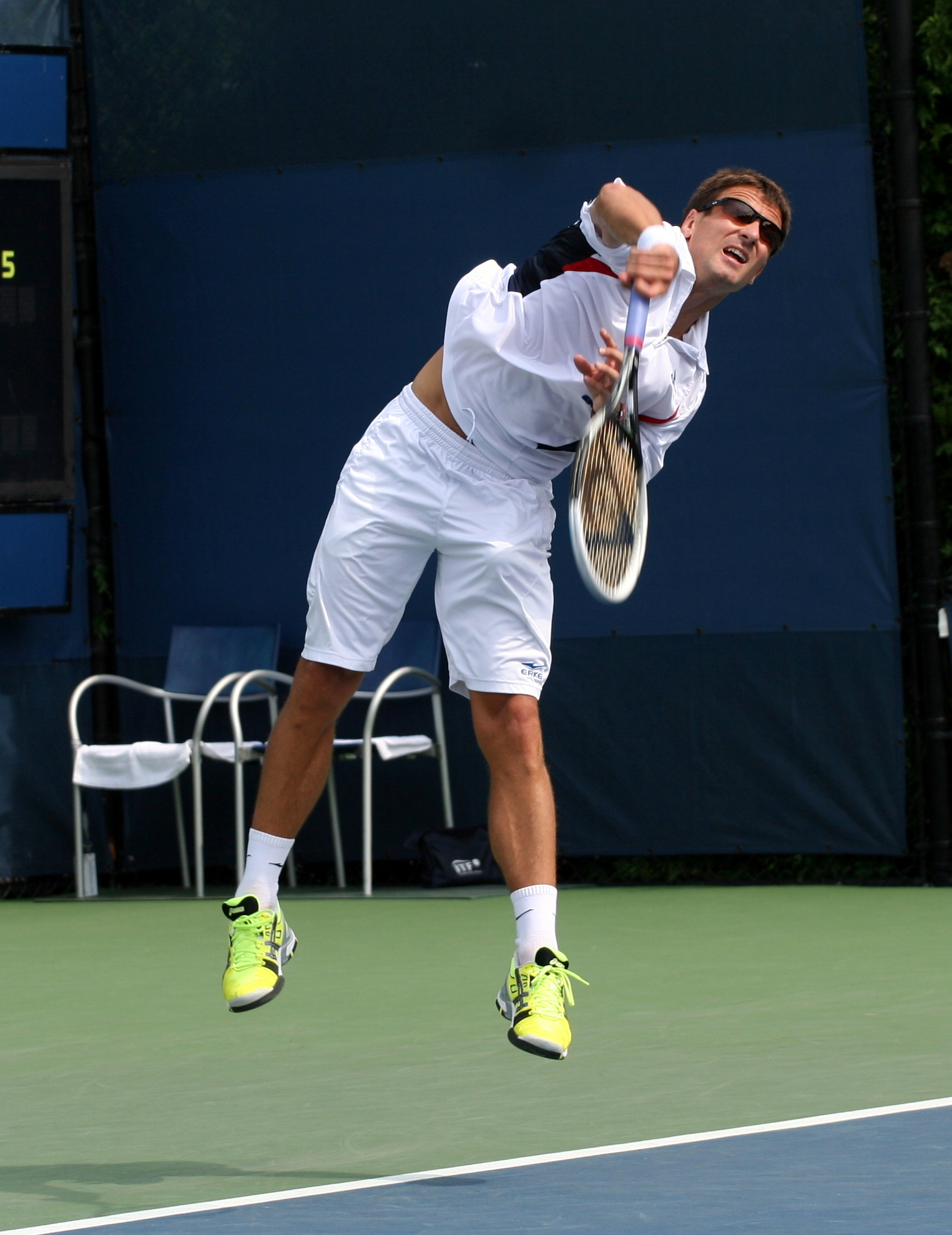 Wednesday, August 28